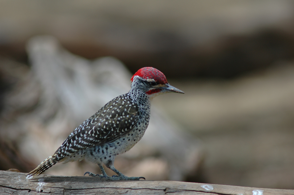 Nubian Woodpecker, Campethera nubica photographed in Kenya, Samburu area by Frédéric Salein in 2005.